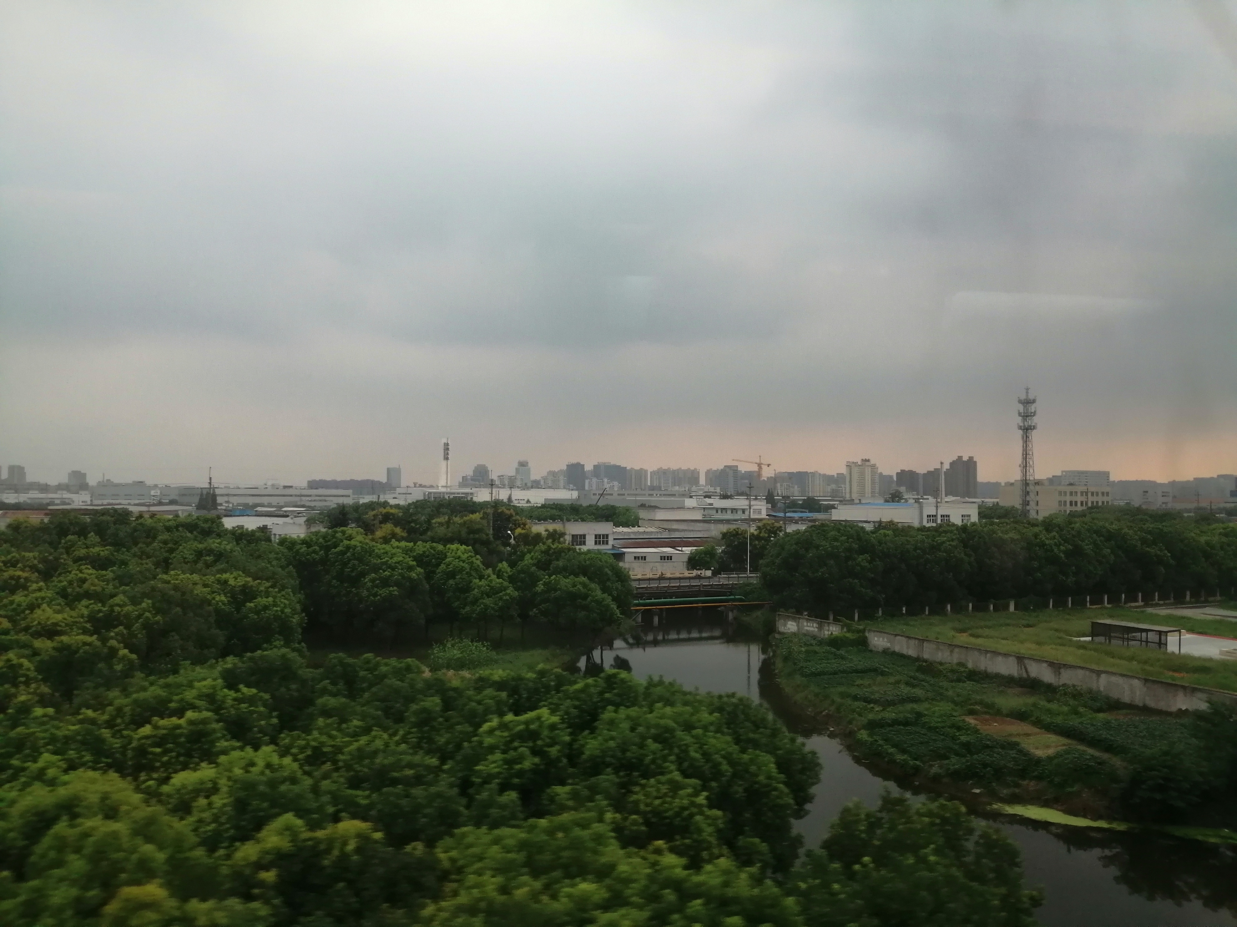 Headquarters and factory of SAIC Volkswagen in Anting, Jiading, Shanghai, from Shanghai-Nanjing High-speed Railway view. Established in 1984, SAIC Volkswagen is the first joint-venture sedan manufacturing corporation in mainland China. 中文（中国大陆）: 从沪宁高铁角度眺望上汽大众安亭总部及工厂。上汽大众成立于1984年，是中国大陆第一家合资轿车生产企业。